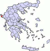 locator map, based on Image:Prefectures Greece grey.png